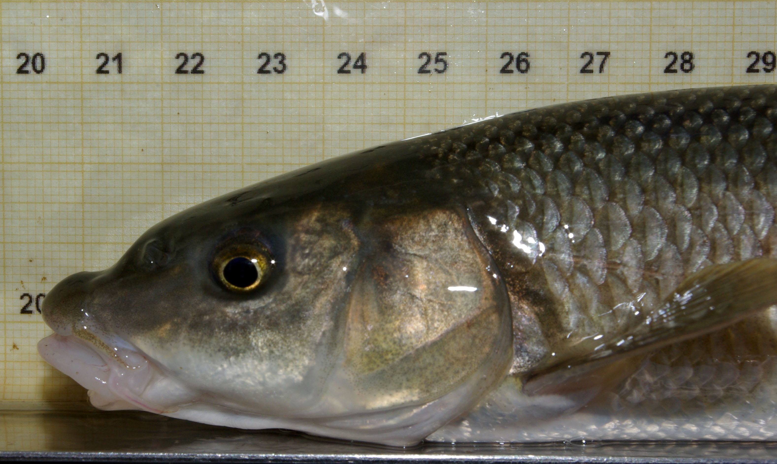 Iberian Barbel Barbus bocagei. River Douro, near Soria, Soria (Spain)